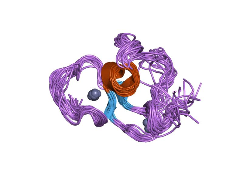 Cartoon representation of the molecular structure of protein registered with 1f62 code.